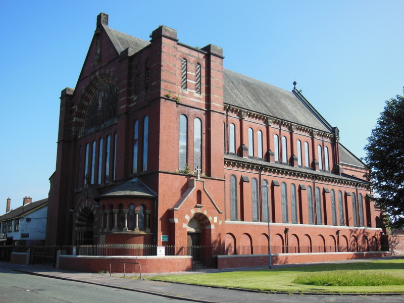 Former Roman Catholic church of Corpus Christi, Varley Street, Miles Platting, Greater Manchester, England, seen from the south. A Norbertine priory was attached to the church.